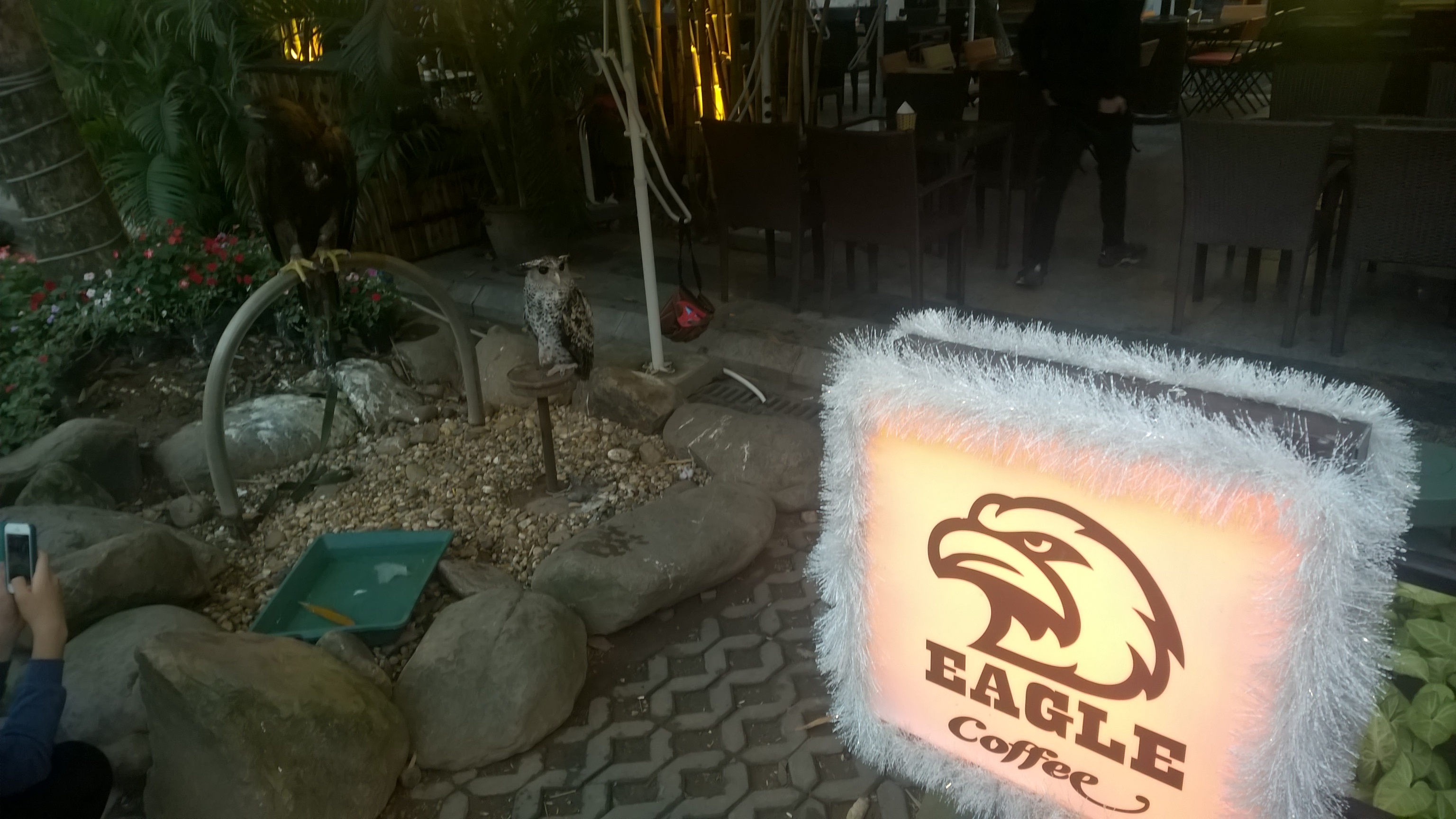 Eagle coffee HN.